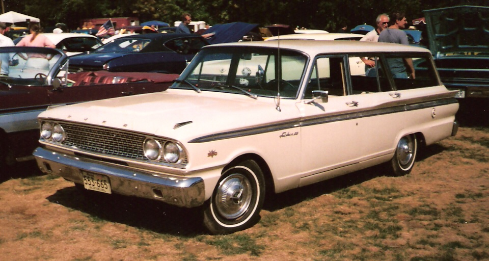 1963 Ford Fairlane 500 Custom Ranch Wagon I photographed in Rye, New Hampshire.